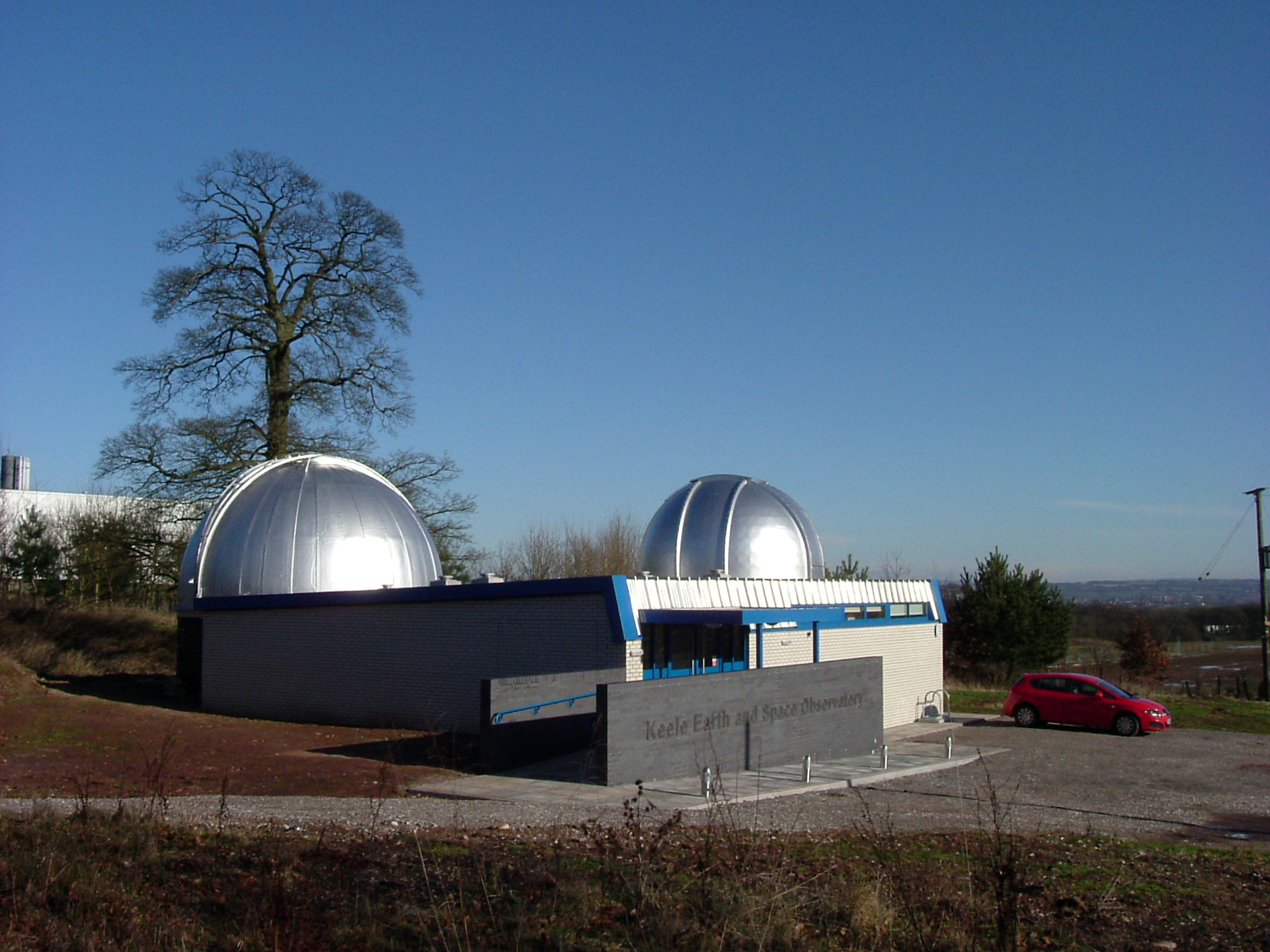 Keele University Observatory